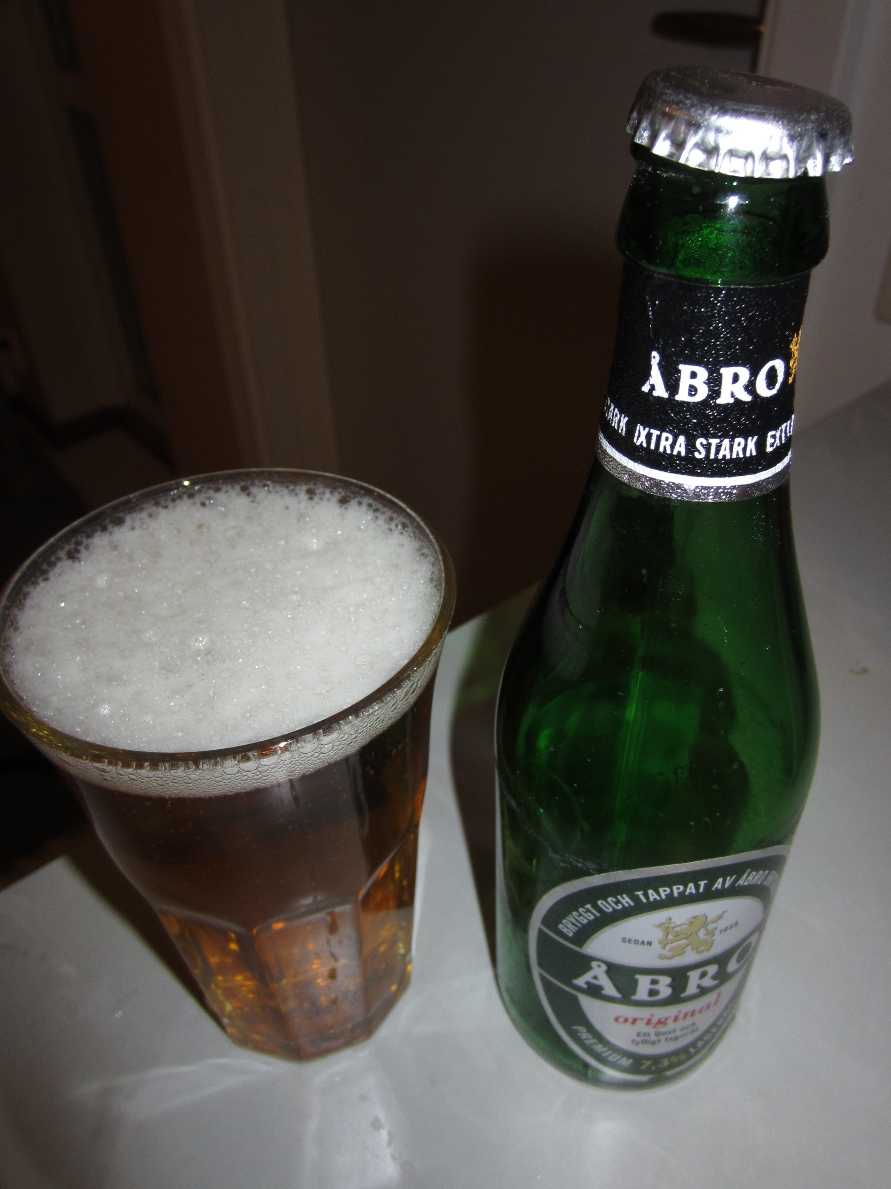 Swedish beer "Åbro Original Extra Stark" (7.3%)